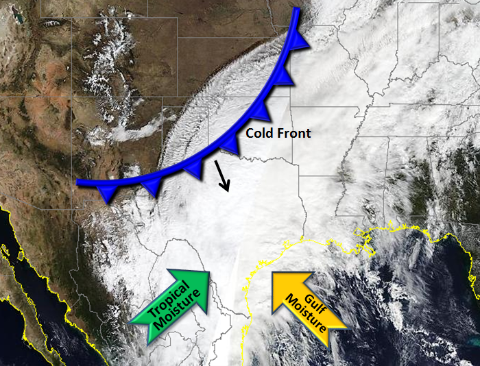 A number of factors came together to produce a heavy rain event across South Texas on October 24. Abundant gulf moisture was already in place as deep onshore flow had been occurring for several days, pulling in very moist gulf air. Additionally, Hurricane Patricia made landfall along the Pacific Mexican coast on the 23rd...and its remnant moisture quickly pushed across Mexico and into South Texas. The third ingredient was a cold front dropping down through the central U.S. The combination of all these elements were ideal for widespread heavy rain.